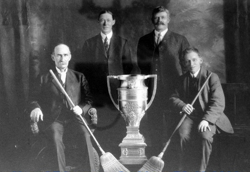 Matthew McCauley and his championship curling team